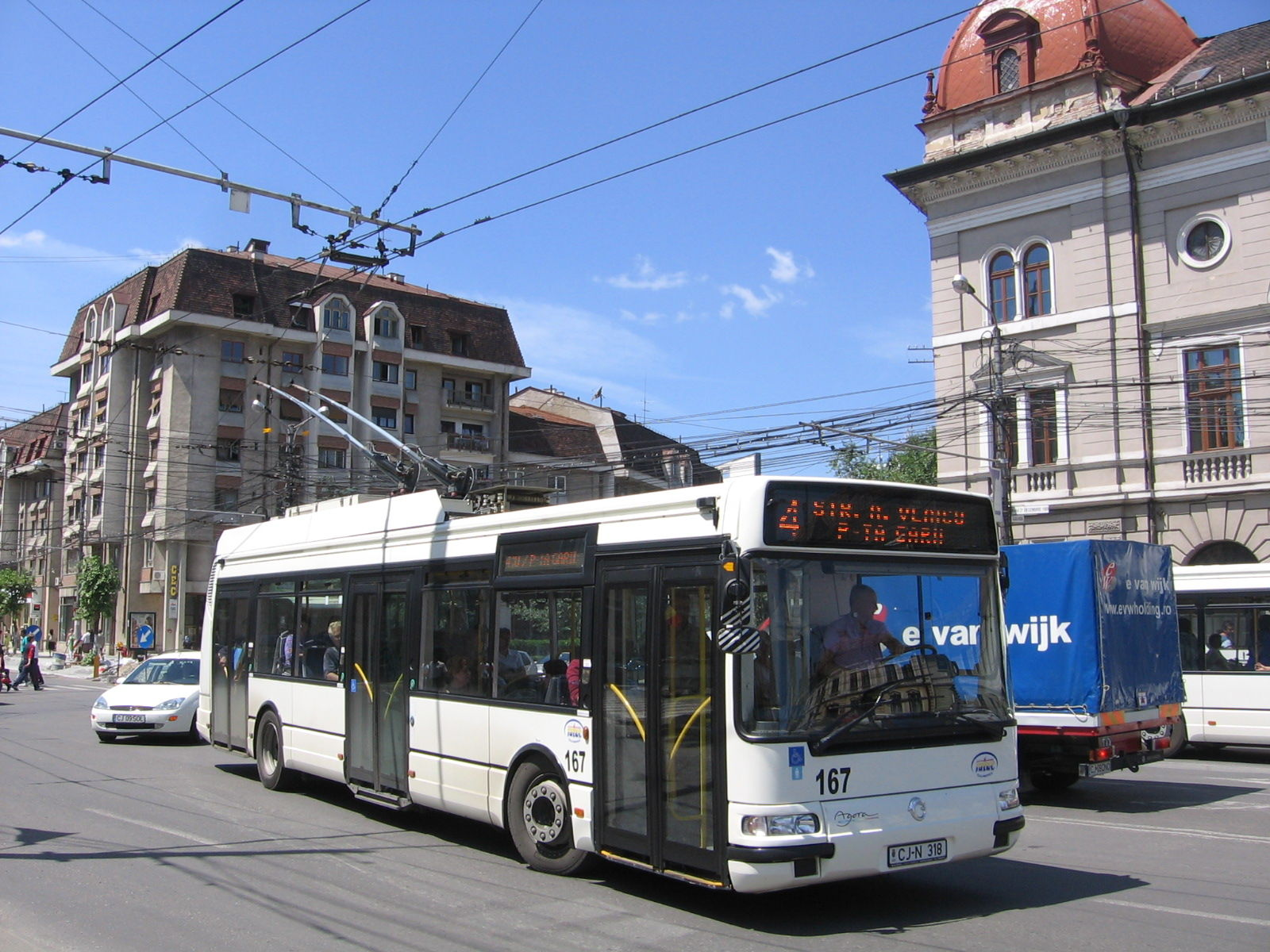 An Irisbus Agora trolleybus in Cluj-Napoca, Romania. Trolleybus 167 is eastbound on Bulevardul 21 Decembrie 1989 at Piața Avram Iancu in the city centre.